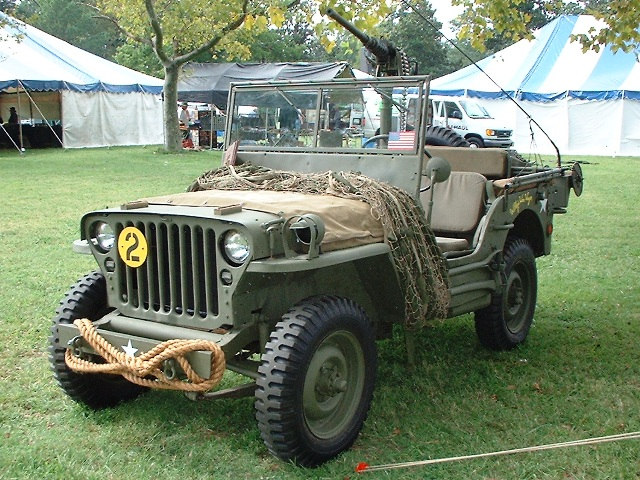 Picture taken at Military Vehicle Show, War Memorial Museum, Newport News, VA, Sun., Sept. 24th, 2006